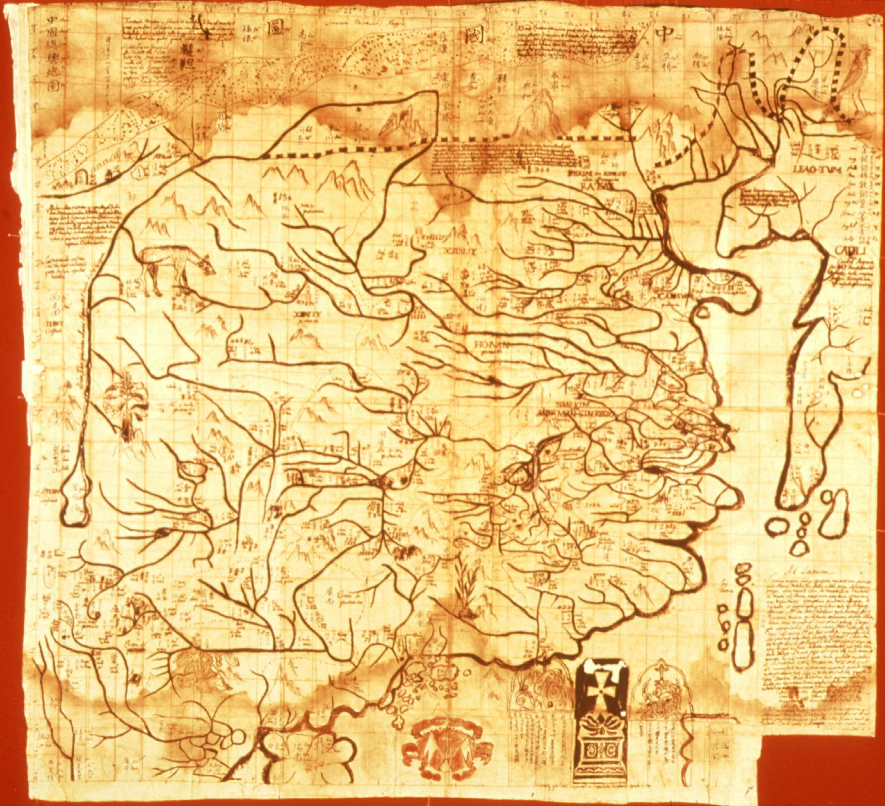 Maps of Great Cathay